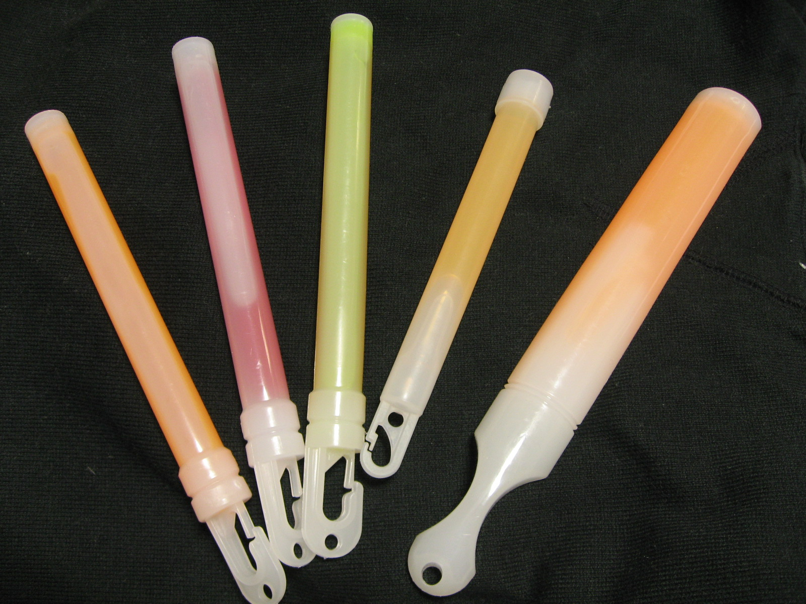 Chemical lights